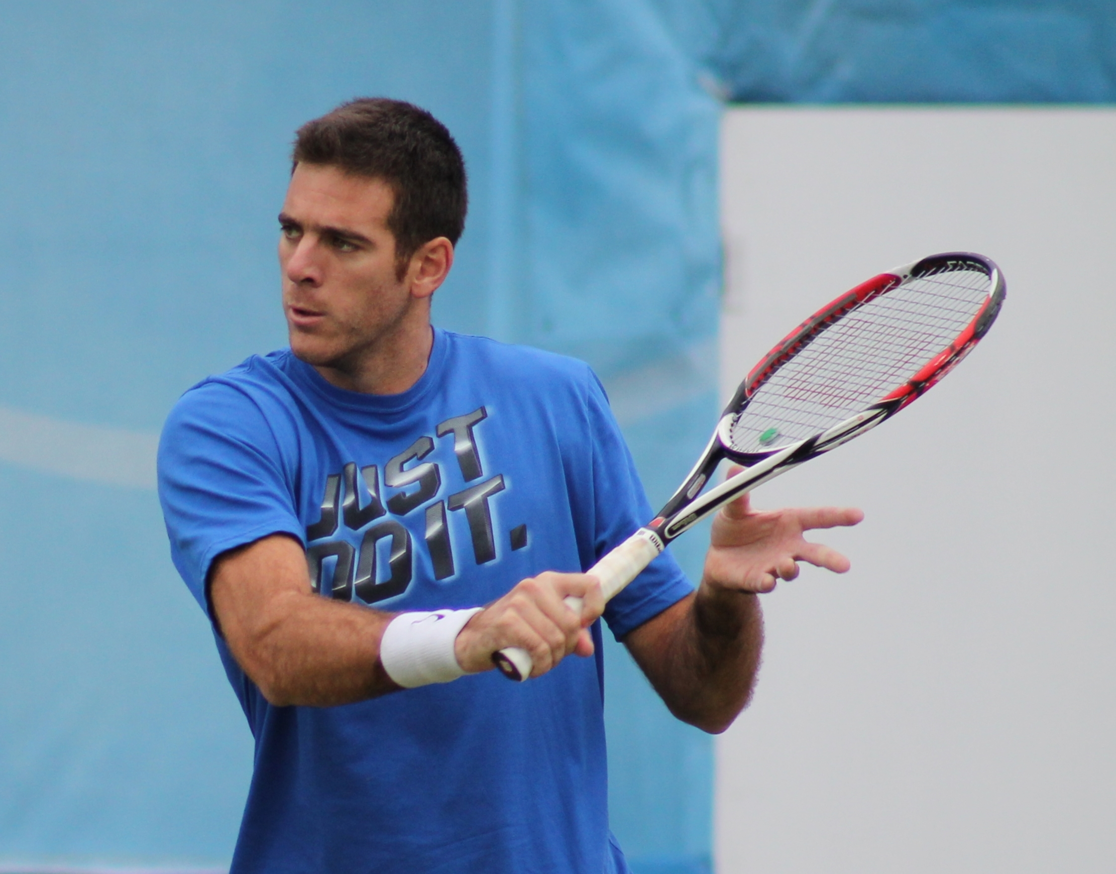 Del Potro playing at queens